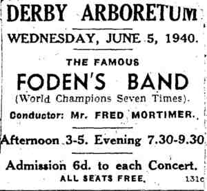 Foden's Band advert from 1940 in the Derby Telegraph. Source: Derby Telegraph, 1940 Copyright for an unsigned or anonymous article expires 70 years from the end of the calendar year in which the work was made, or made available to the public. (ref)